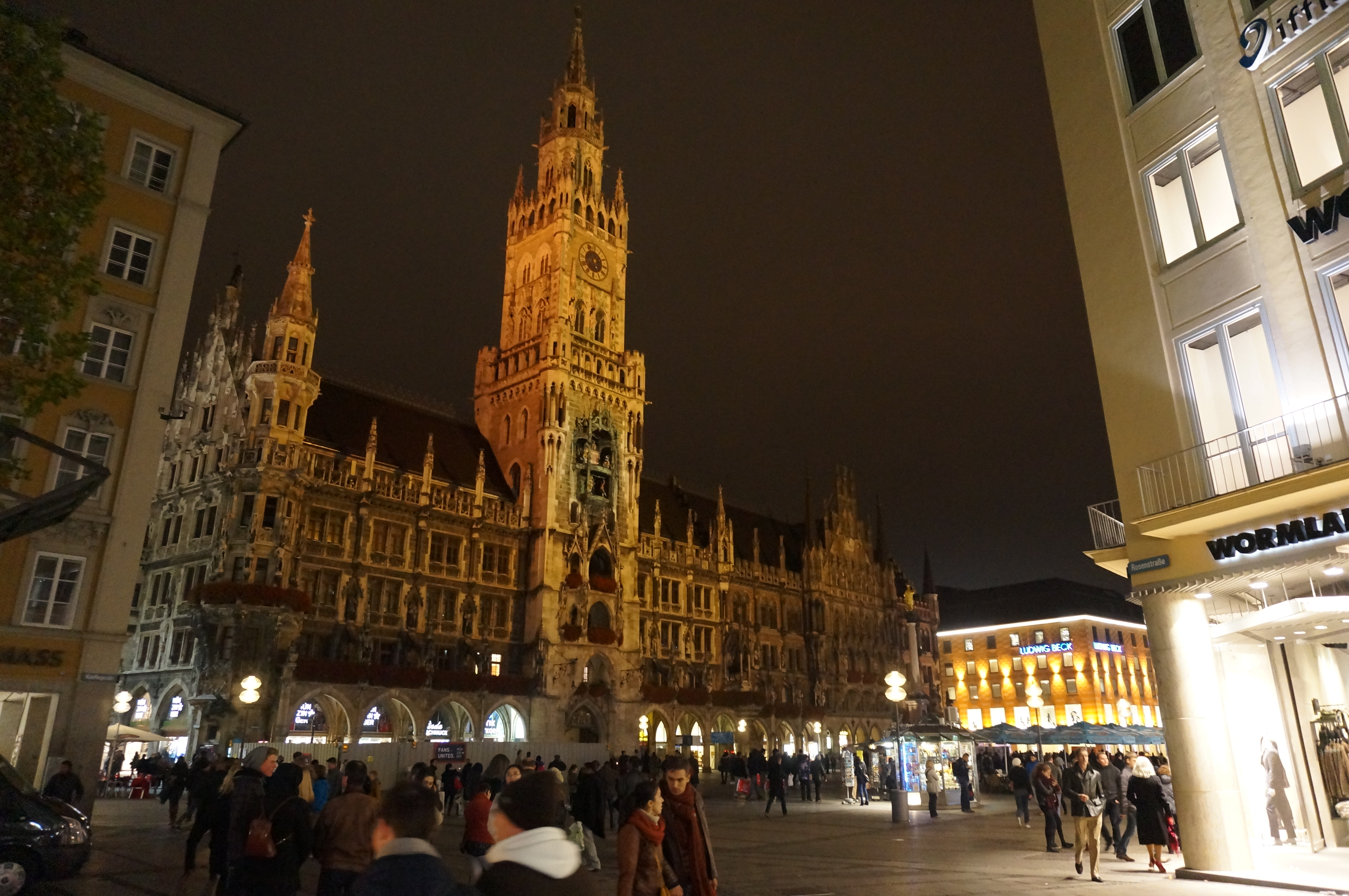 Munich New Town Hall at night